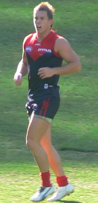 Brent Moloney, Aussie Rules player